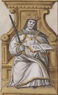 Alfonso X of Castile